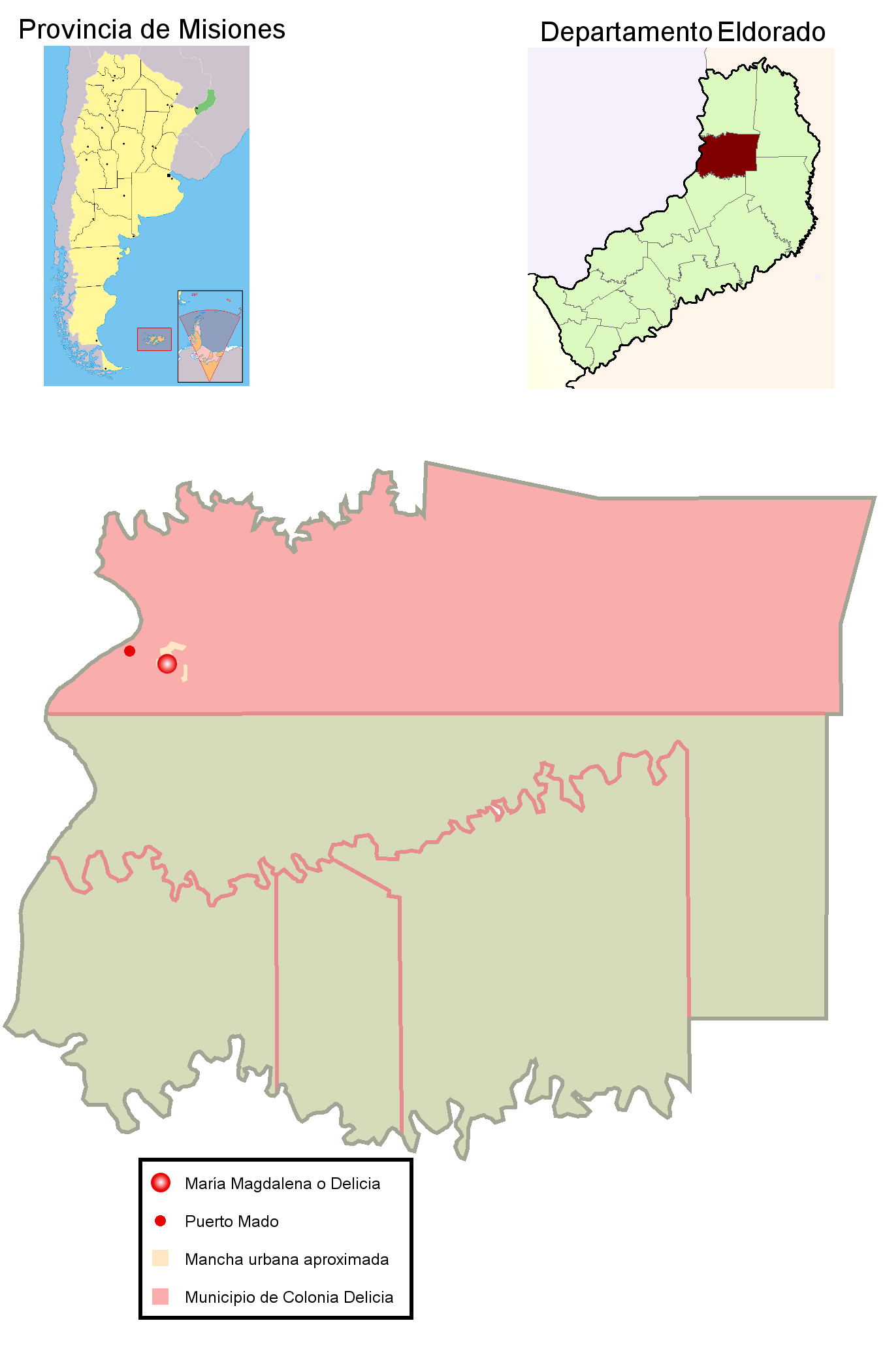 A map showing municipio of Colonia Delicia in Eldorado departament, Misiones province, Argentina. Also shows María Magdalena (also known as Delicia) town location, its urban sector and Puerto Mado town location. Created with GIMP.